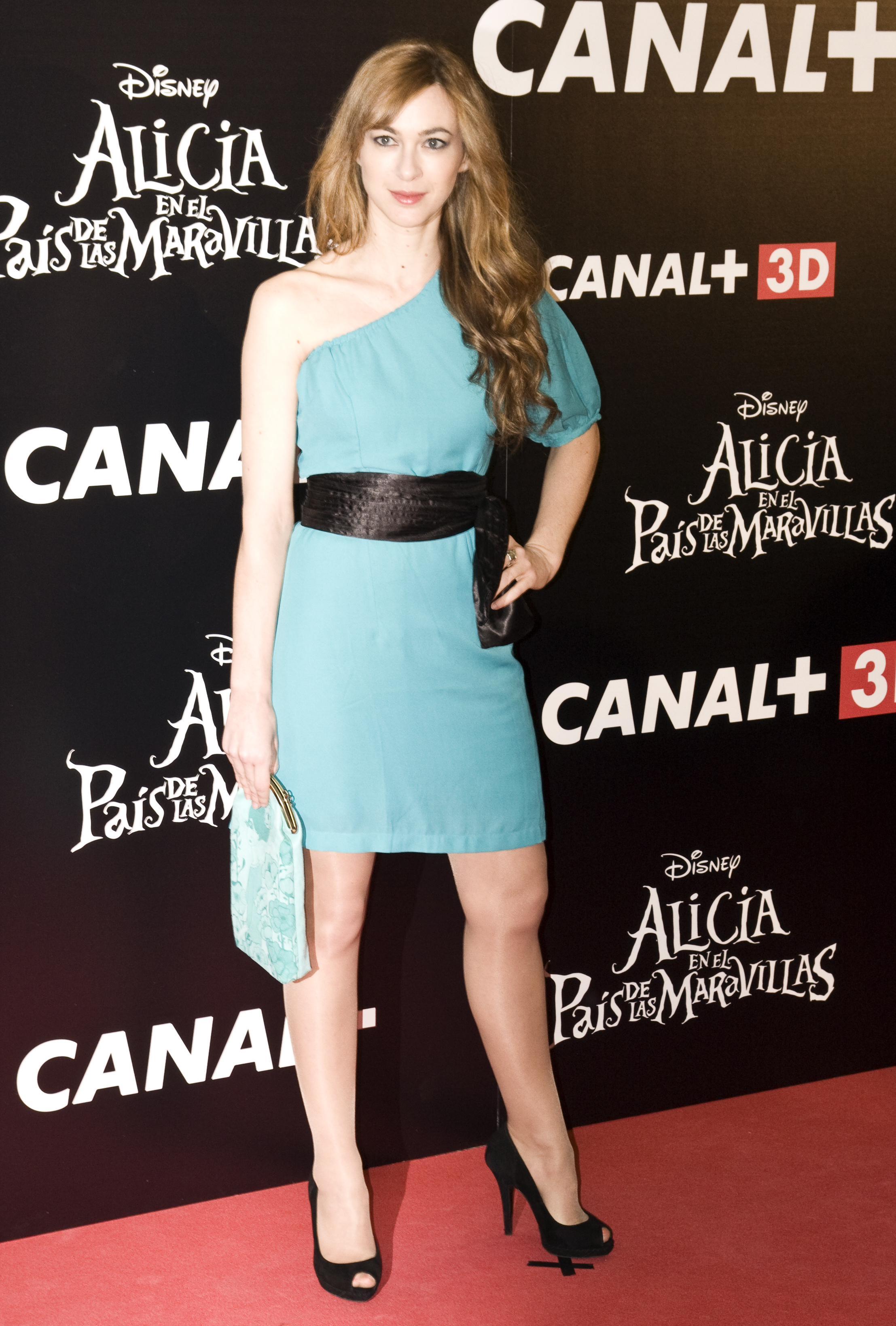 Marta Hazas Spanish actress at the photocall of Alice in Wonderland in 2010.